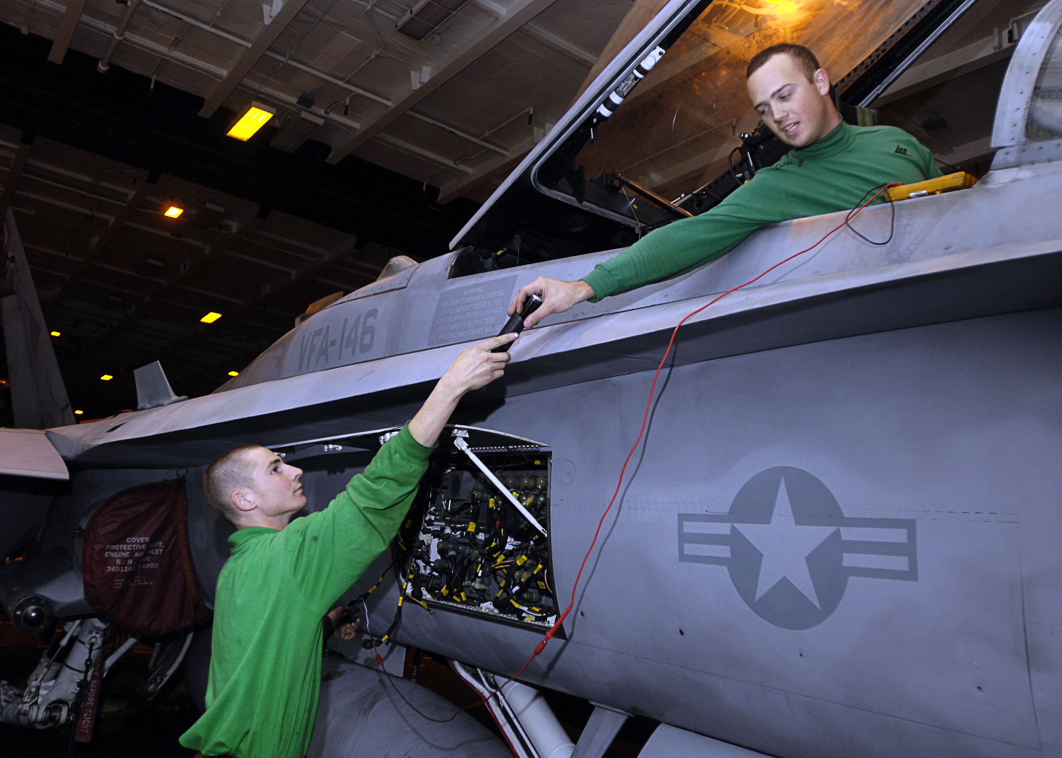 PACIFIC OCEAN (Oct. 20, 2008) Aviation Electronics Technician 3rd Class Ryan Clogston, right, from Woodinville, Wash., hands a flashlight to Aviation Electronics Technician 3rd Class Jacob Riese, from Wonewoc, Wis., as they troubleshoot the electrical system on an F/A-18C Hornet from the "Blue Diamonds" of Strike Fighter Squadron (VFA) 146 in the hangar bay of the Nimitz-class aircraft carrier USS John C. Stennis (CVN 74). Stennis and Carrier Air Wing (CVW) 9 are part of the John C. Stennis Carrier Strike Group conducting a composite training unit exercise off the coast of Southern California. (U.S. Navy photo by Mass Communication Specialist 3rd Class Bryan M. Ilyankoff/Released)